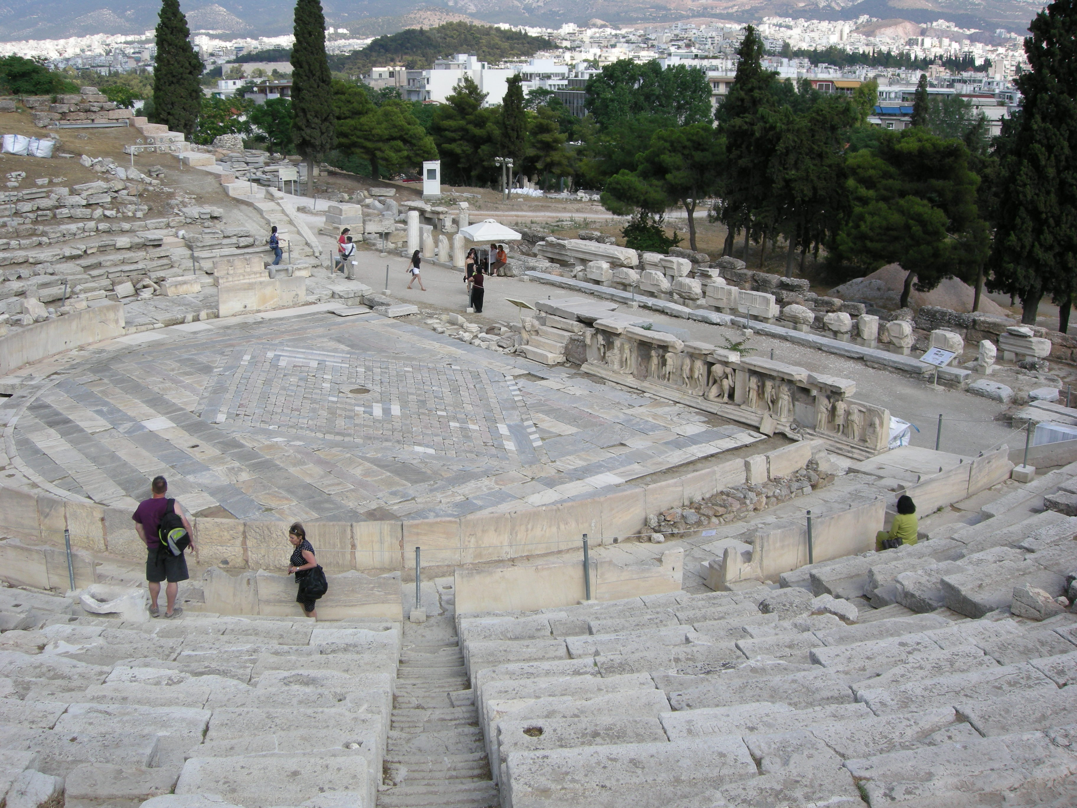 Theatre of Dionysus